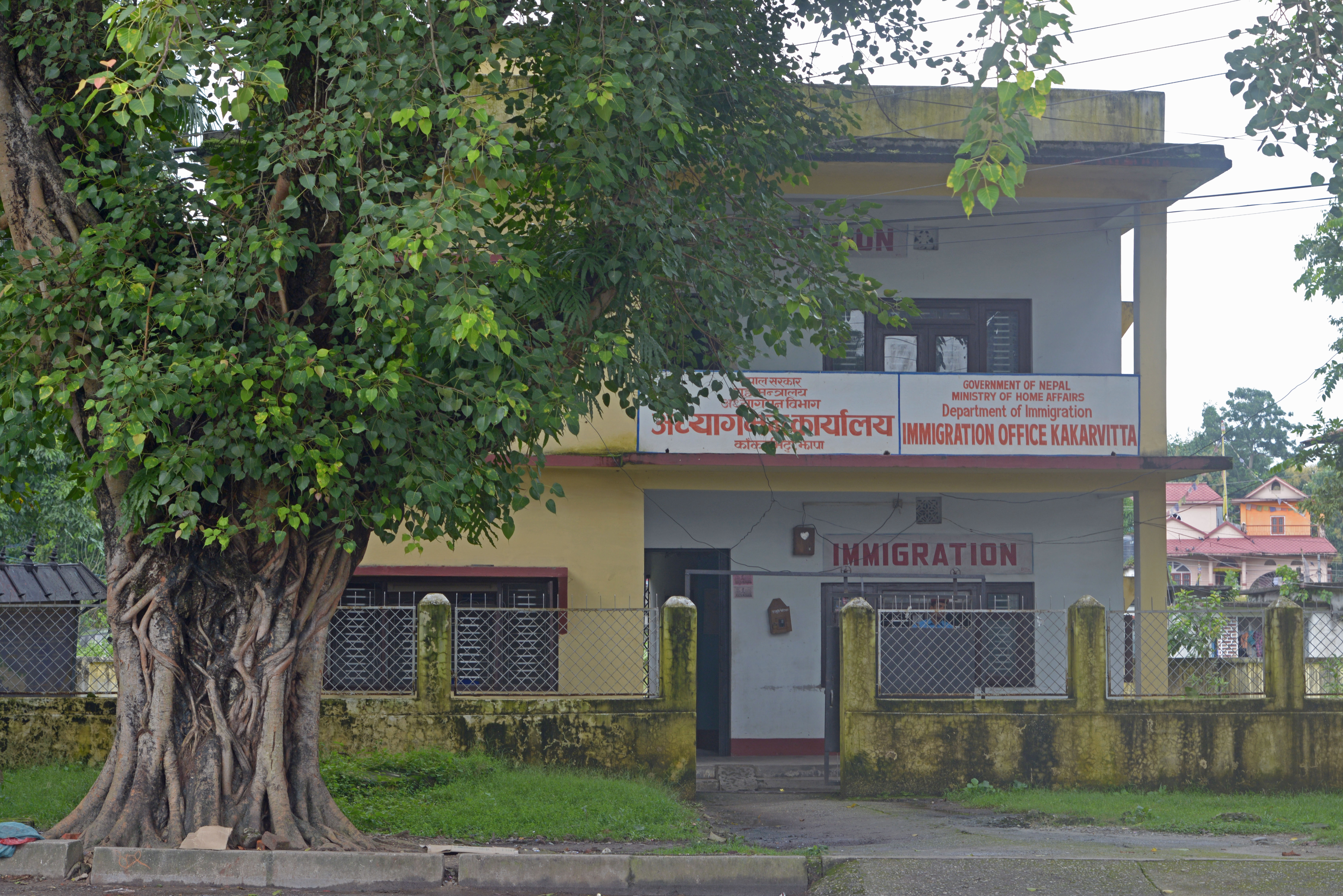 mmigration office, Kakarbhitta, Nepal